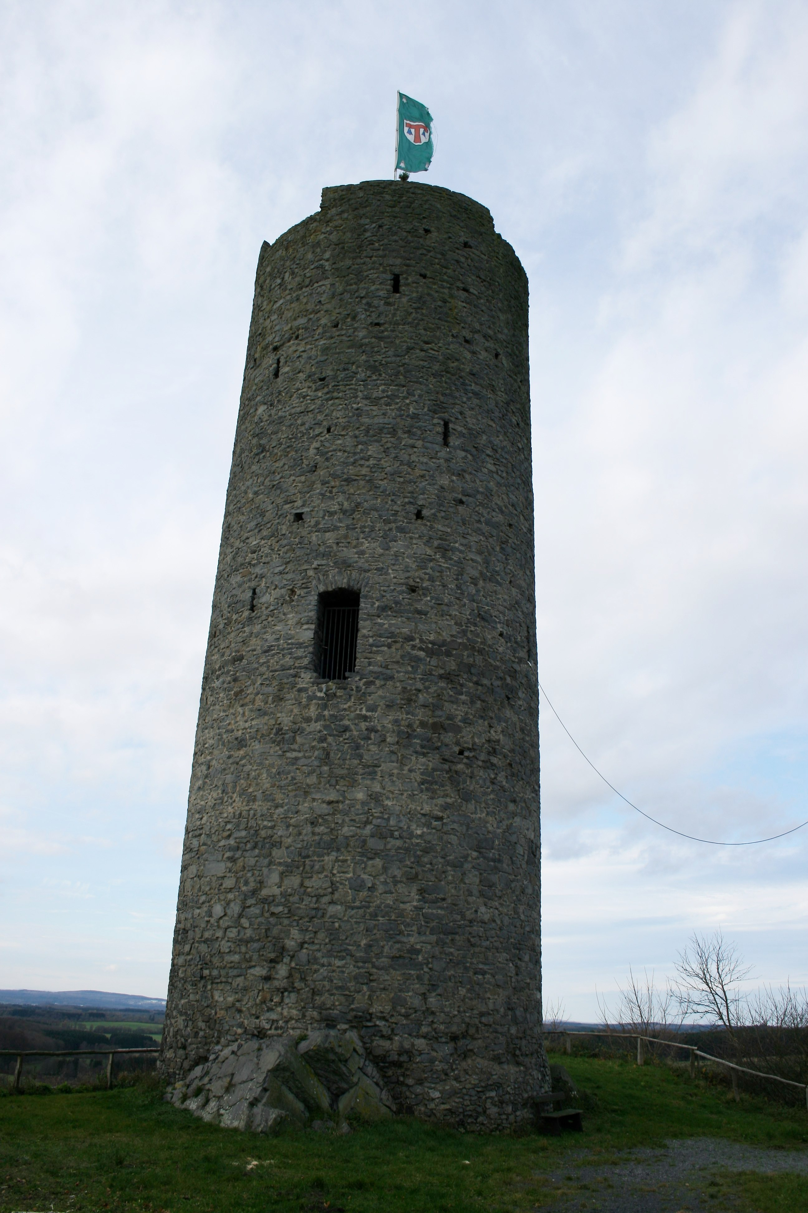 The Tower of Burg Hartenfels (Castle), Germany